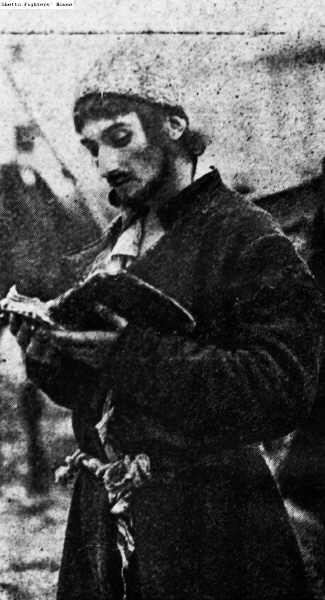 Jonas Turkow - 1925